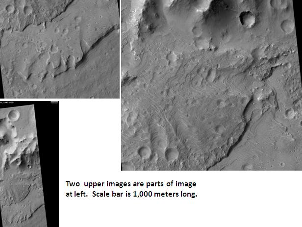 Tyras Vallis Terraced Fan Deposit, as seen by hirise. Location is 8.4 degrees north latitude and 310.3 degrees east longitude. Image was taken by the Mars Reconnaissance Orbiter's HiRISE. The HiRISE camera was built by Ball Aerospace and Technology Corporation and is operated by the University of Arizona. Image courtesy NASA/JPL/University of Arizona.